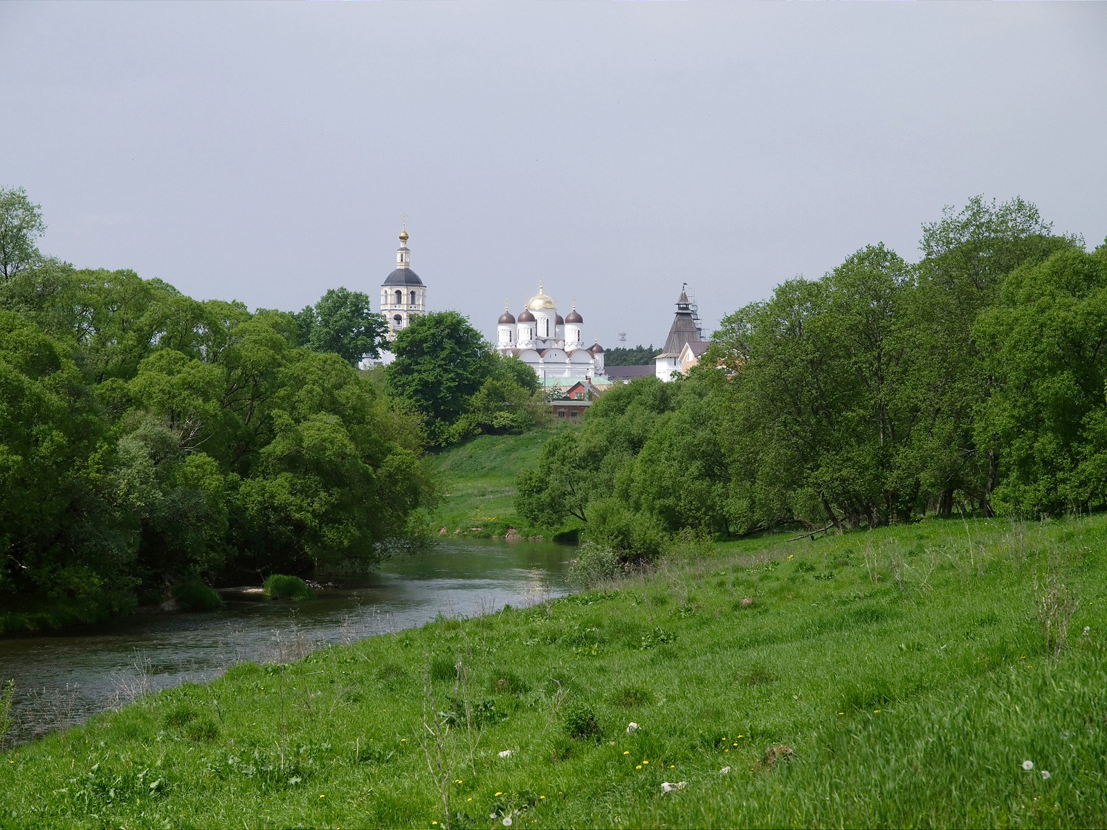 Protva River in Ryabushki, Kaluga Oblast. The Pafnutiev Monastery ahead.